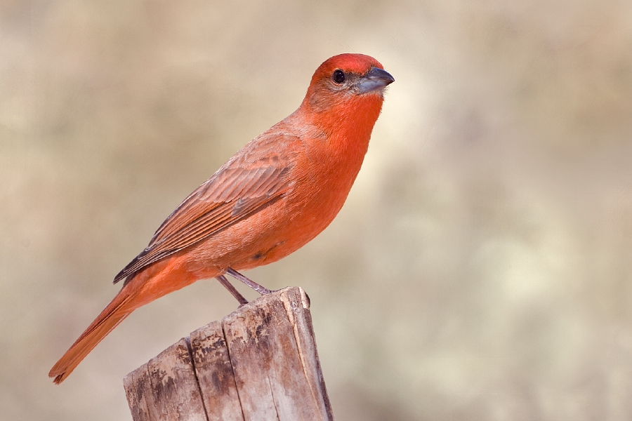 Hepatic Tanager (male), species Piranga hepatica, The Drip At Madera Canyon, Near Green Valley, Arizona. Females are yellow in color.